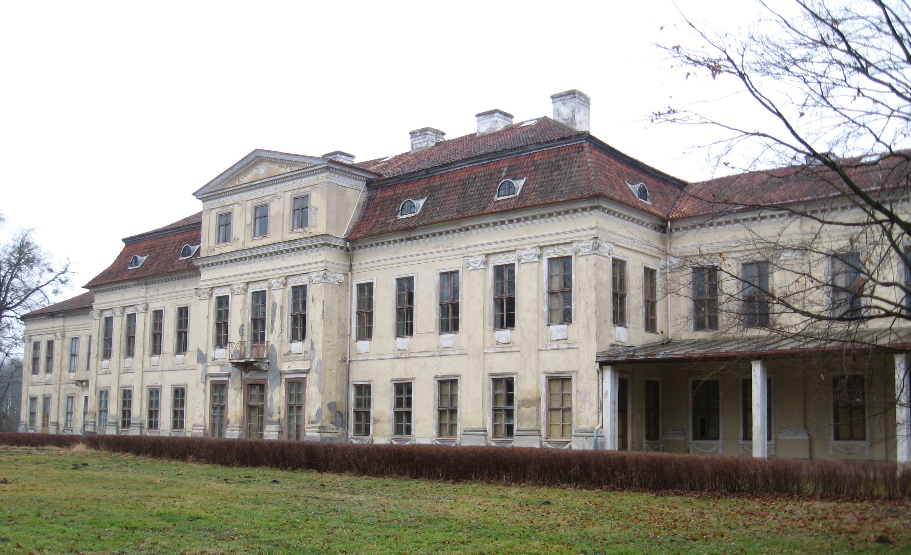 Palace w Drogosze (Groß Wolfsdorf) in Poland.